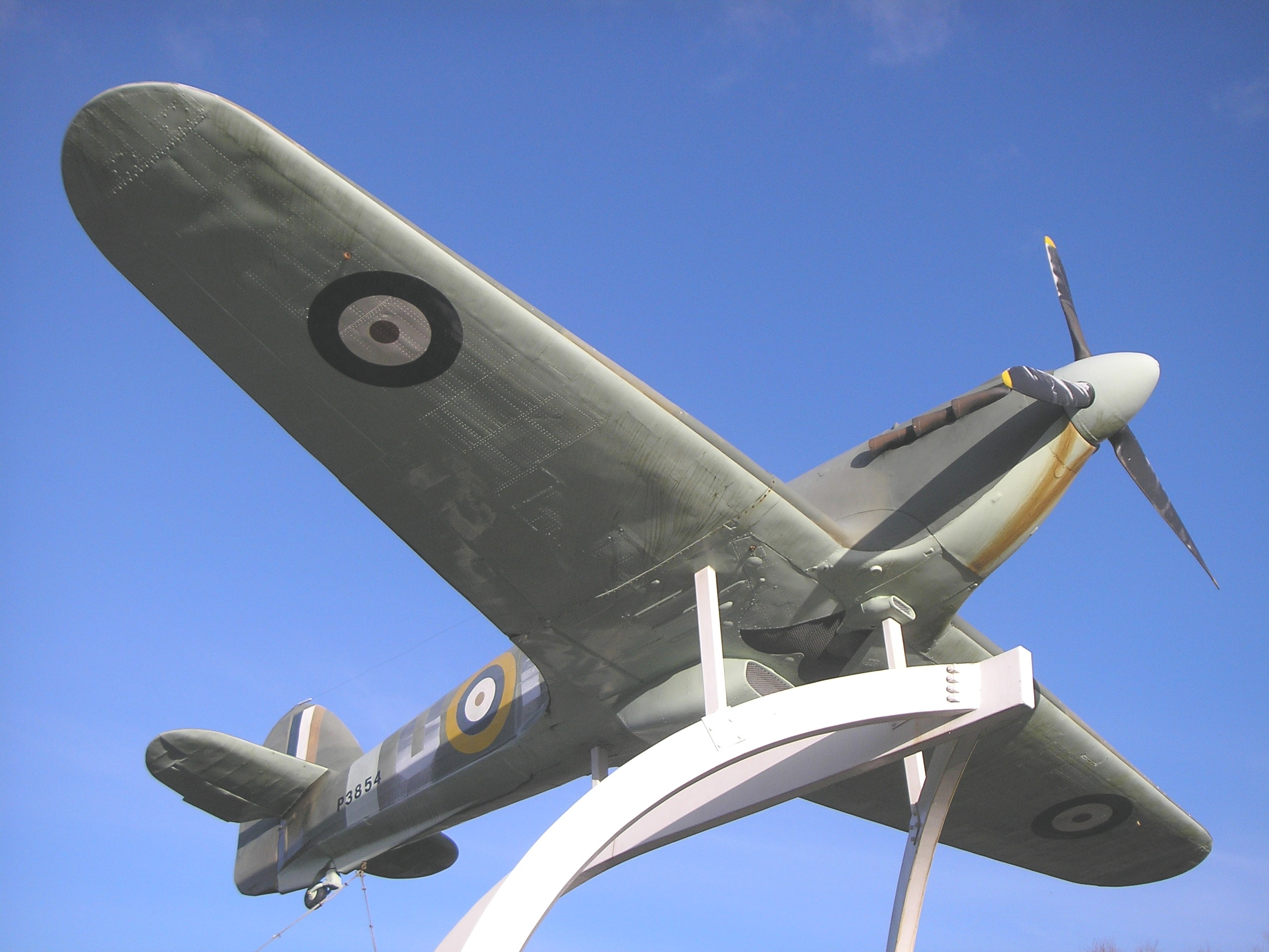 Replica of Sir Keith Park's hurricane at MoTaT, Auckland 2007. Category:Images of military aircraft